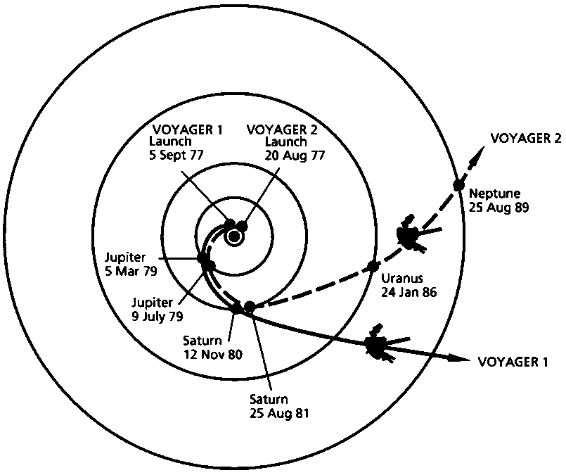 A diagram of the trajectories that enabled NASA's twin Voyager spacecraft to tour the four gas giant planets and achieve velocity to escape our solar system.